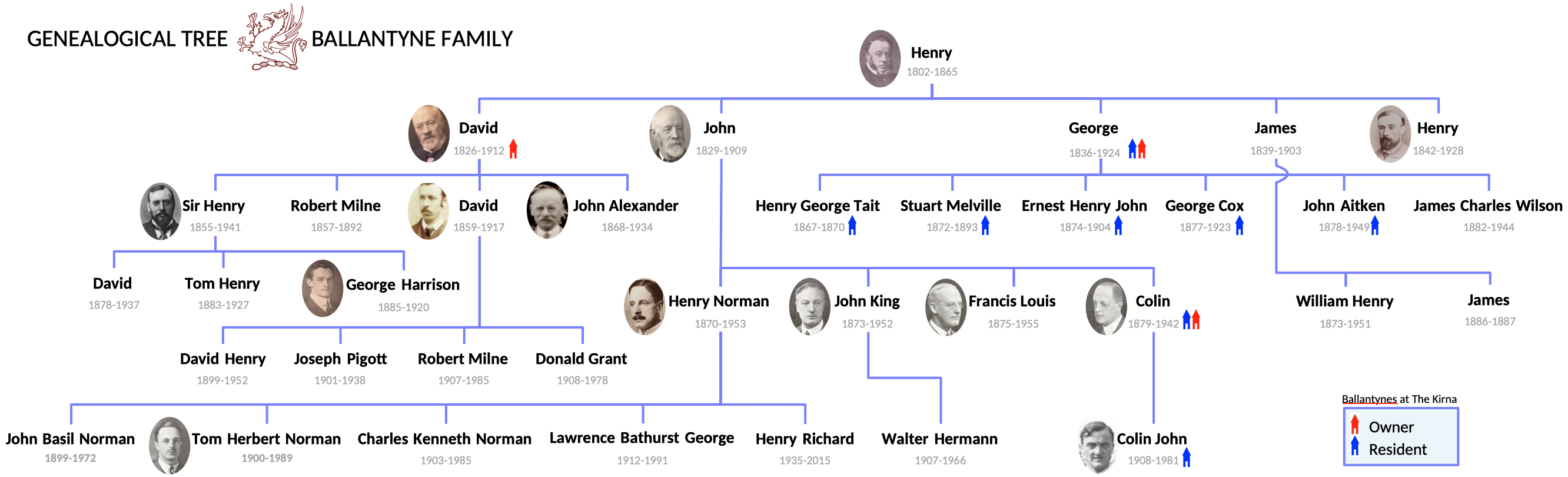 Genealogical Tree of Ballantyne Family, highlighting owners of The Kirna in Walkerburn, Scotland